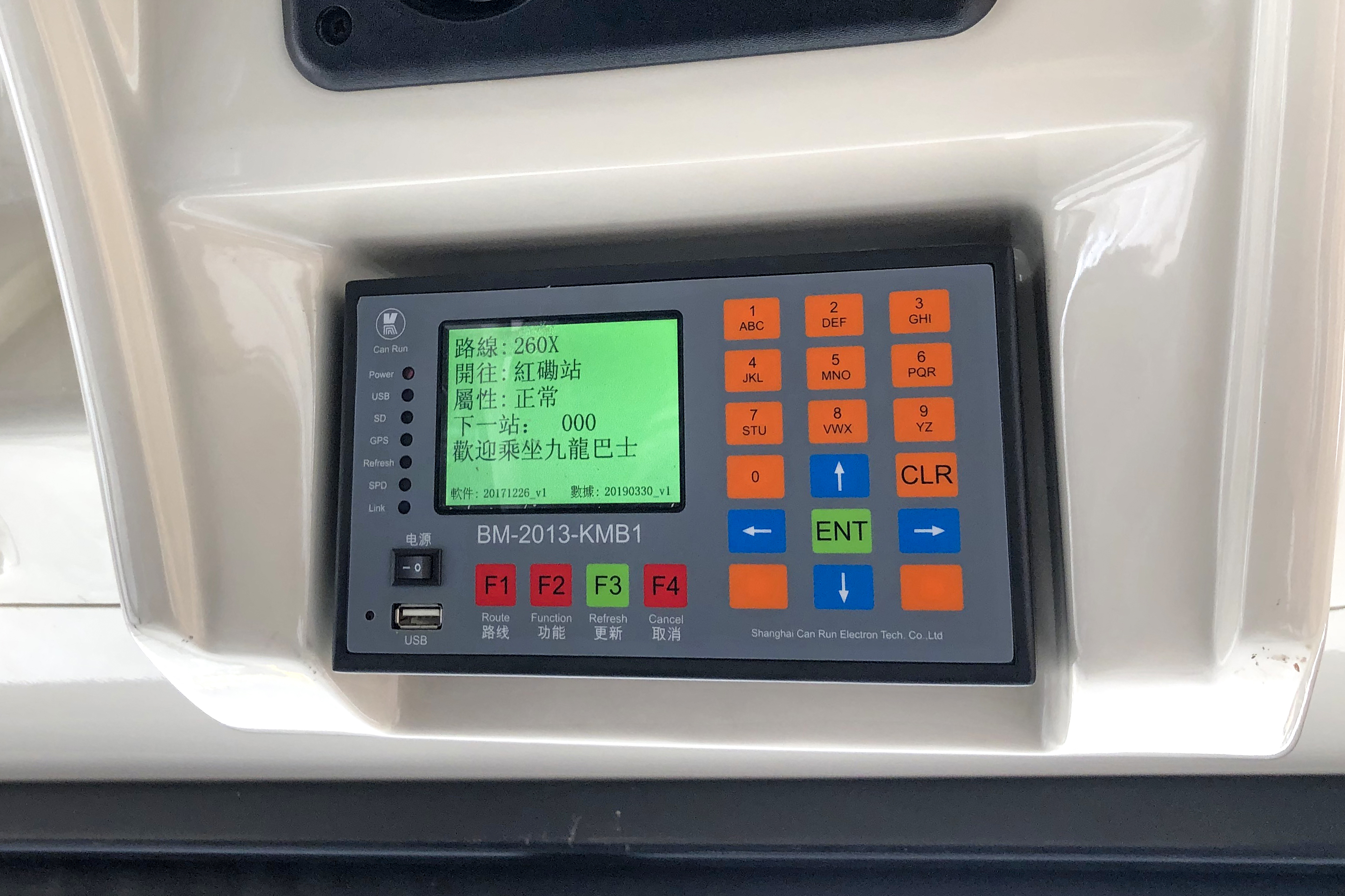 ATENU for 260X.